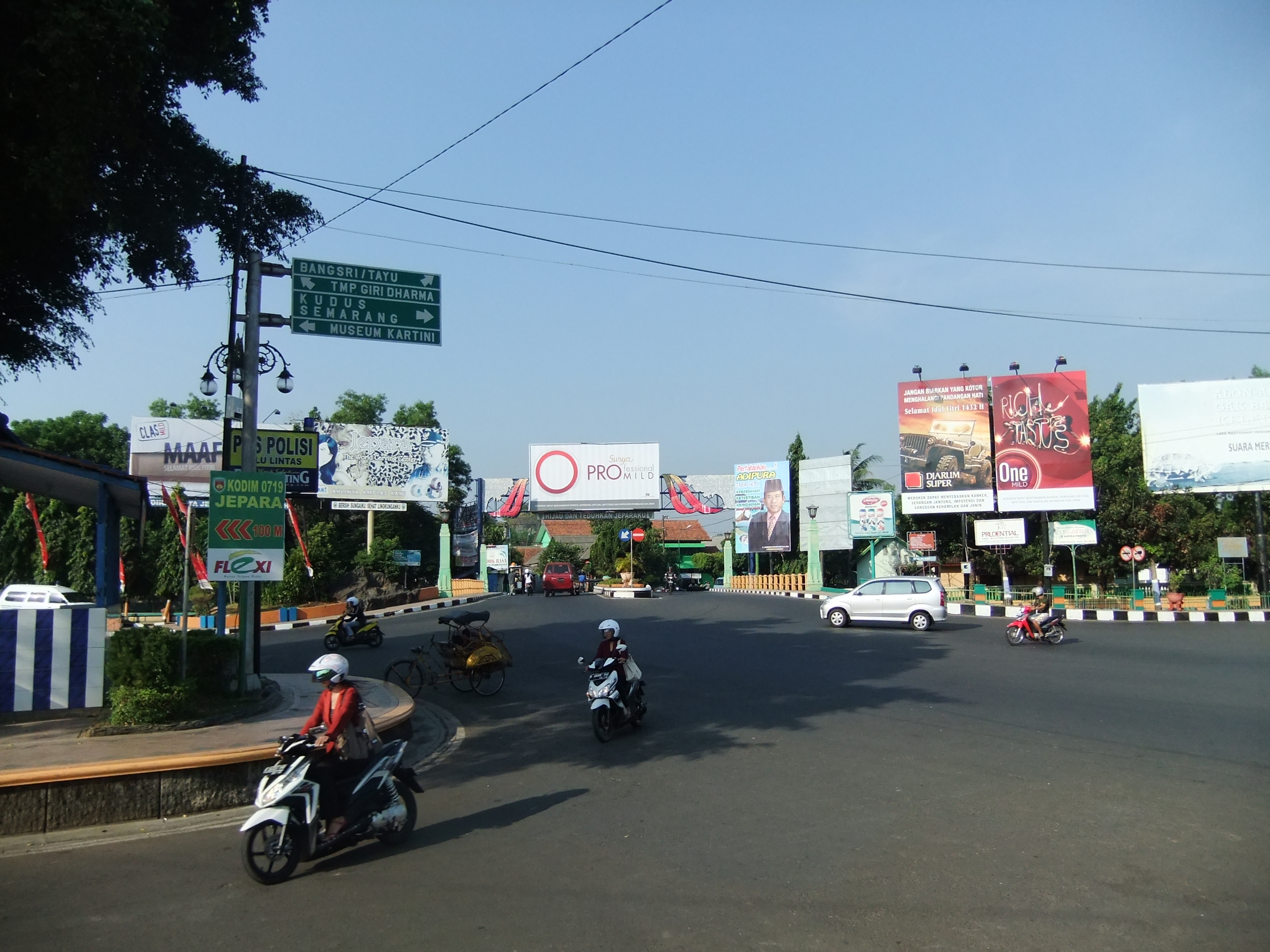 Jepara, close to the city square (Alun-Alun)